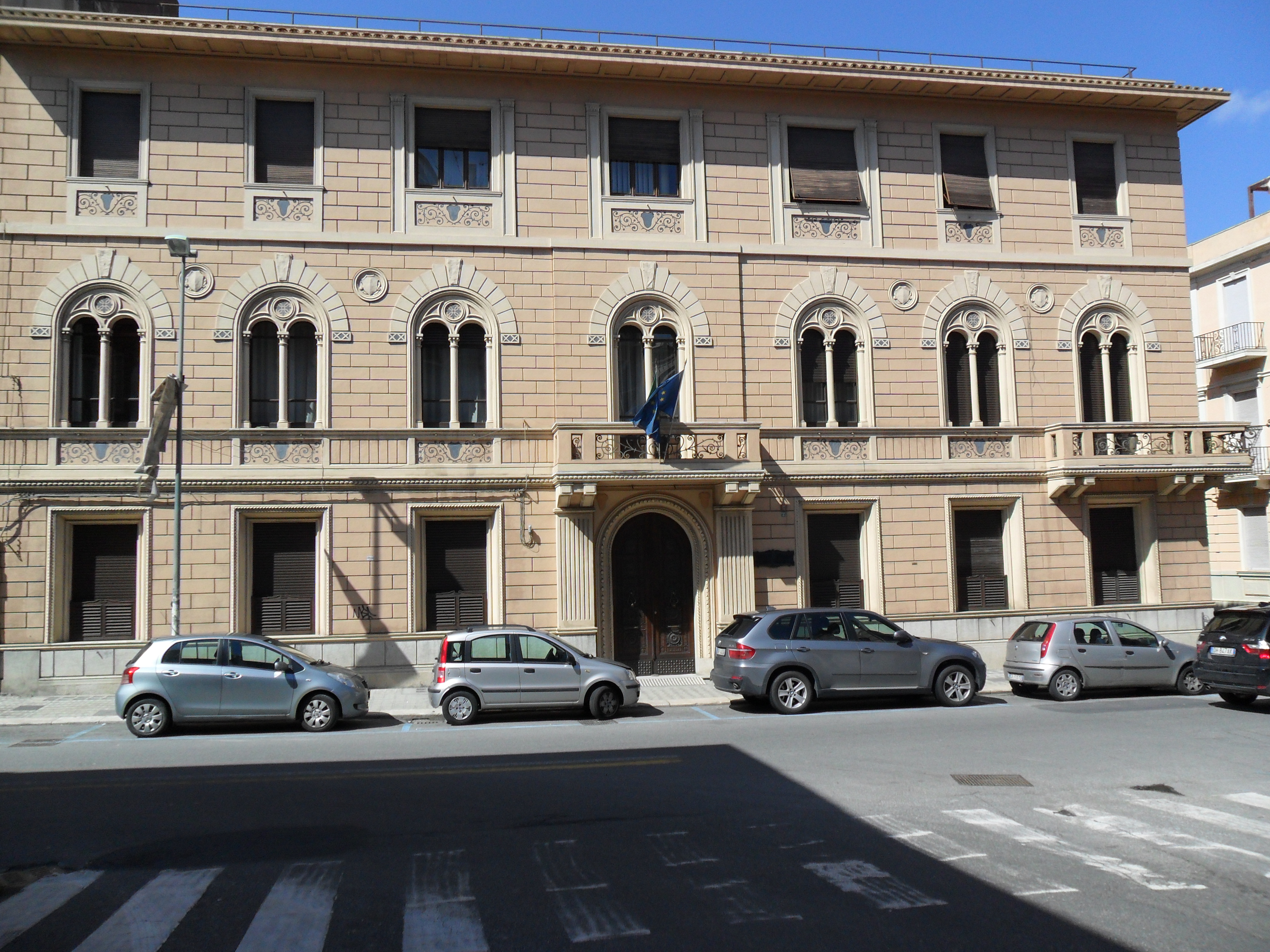 The Chamber of Commerce City